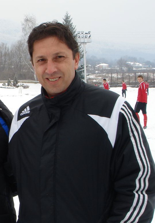 Atanas Atanasov - bulgarian soccer coach, leading Chavdar Etropole